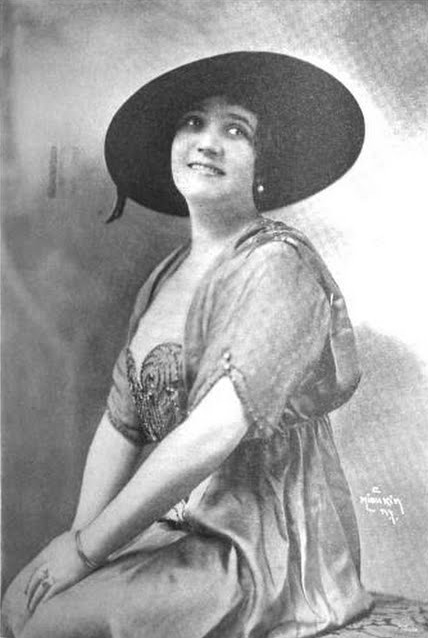 A portrait of the soprano Ida Quaiatti, sometimes called Ida Cajatti. Portrait is taken from an advertisement published in a U.S. magazine in 1916, and is therefore in public domain in the United States.